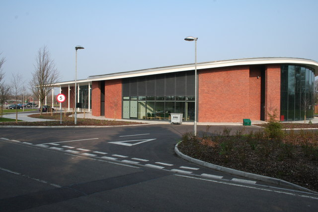 Mid Beds District Council Offices The new district council offices replacing the old at Ampthill & Biggleswade